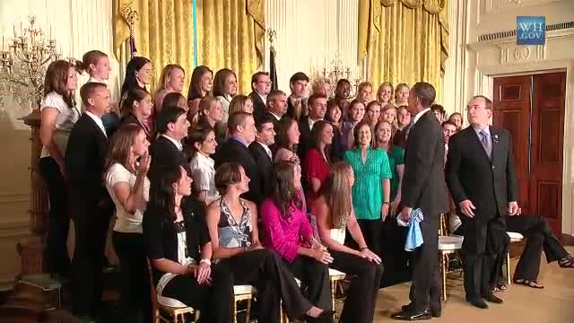 President Barack Obama welcomes the Women's Professional Soccer champions Sky Blue FC in the East Room of the White House, July 1, 2010. The President honored their winning of the inaugural Women's Professional Soccer championship. Screenshot taken from official White House video.